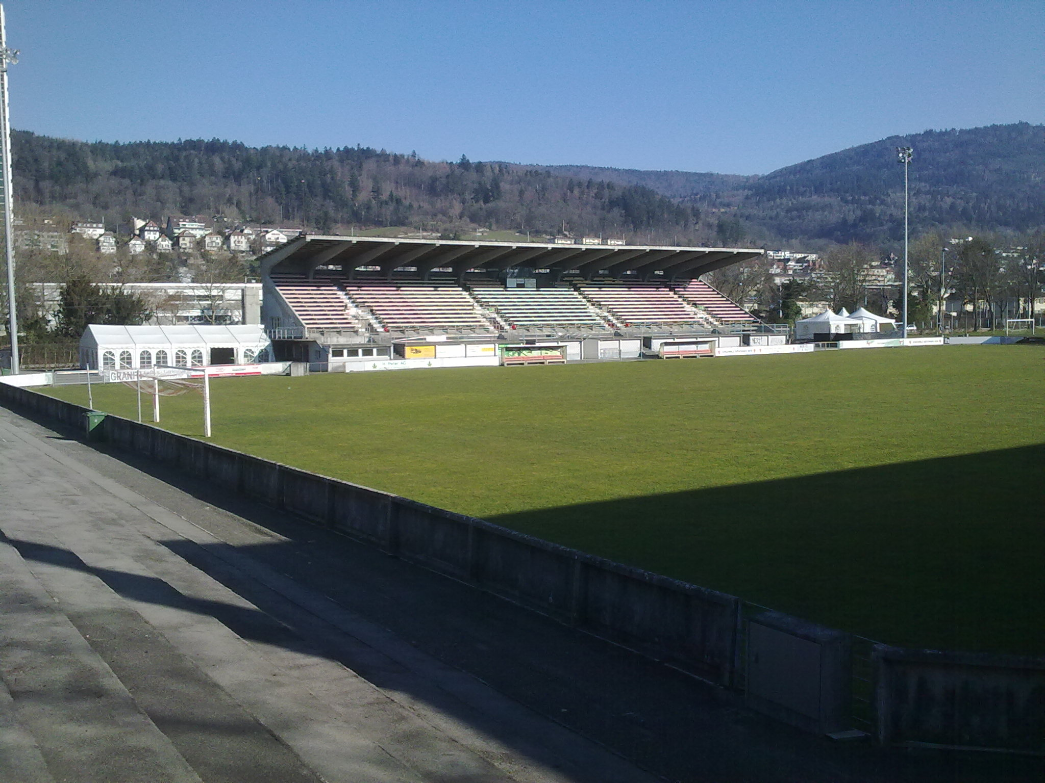 FC Biel/Bienne